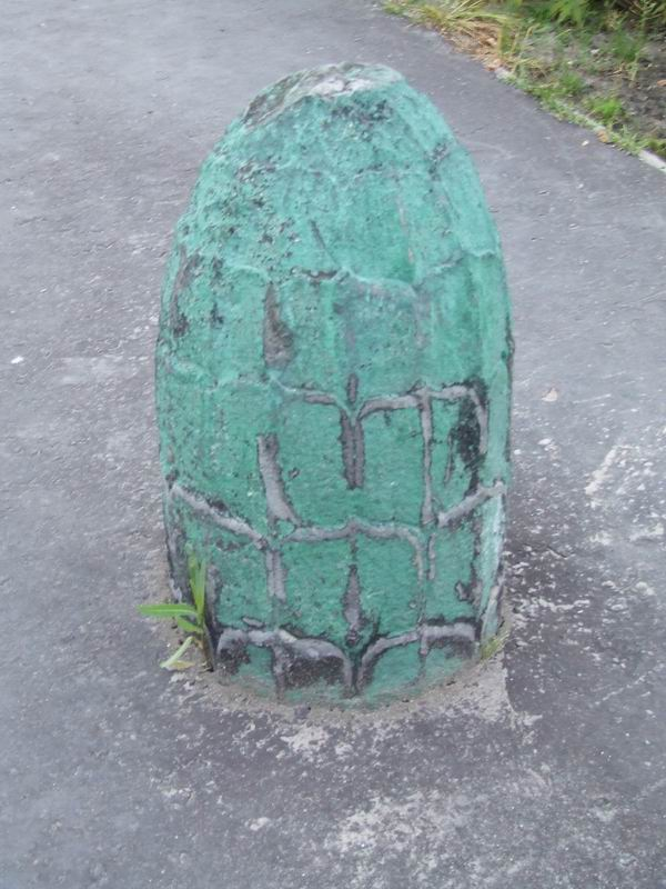 Part of attic (roof) of original 17th c. Pałac Kazanowskich w Warszawie